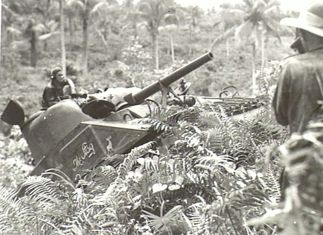 AWM Caption: 'The Stag', a Sherman M4A2 medium tank, approaching the top of Course No 2 during tank tests at HQ 4 Armoured Brigade. Australian War Memorial (AWM) catalog number 082750